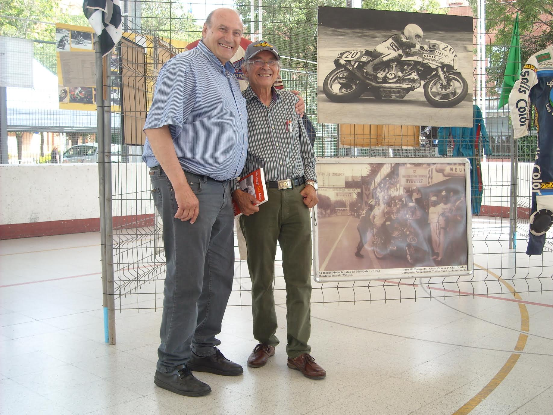 Josep Isern (left) and César Gracia, during the II Llotja del Vehicle Clàssic de Mollet (june 2015)